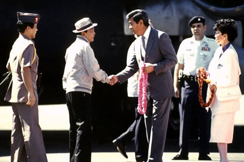 Ousted President of the Philippines Ferdinand Edralin Marcos arrives in Honolulu, Hawaii, on 26 February 1986. He is welcomed by Hawaii Governor George Ariyoshi and his wife Jean.